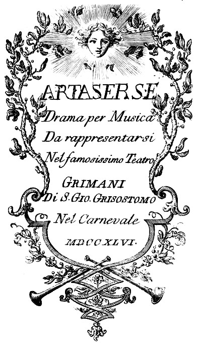 Girolamo Abos - Artaserse - titlepage of the libretto - Venedig 1746